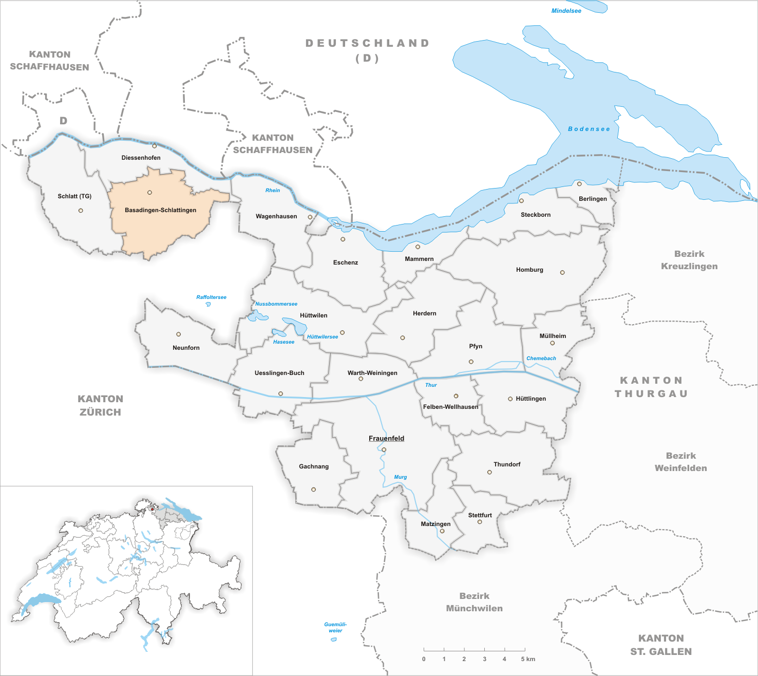 Municipality Basadingen-Schlattingen